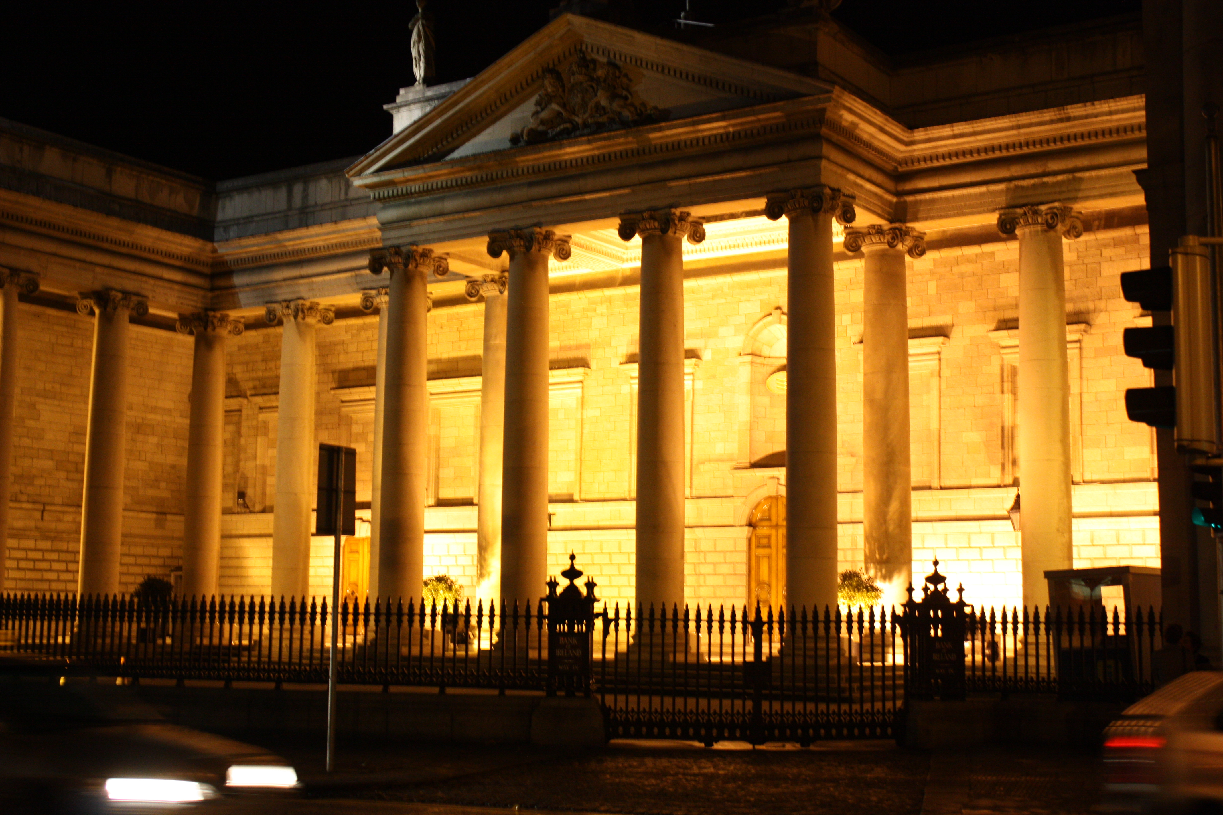 Bank of Ireland, College Green, Dublin, Republic of Ireland, October 2010